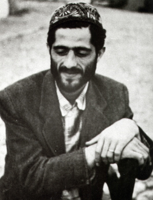 Jalal Al-e-Ahmad